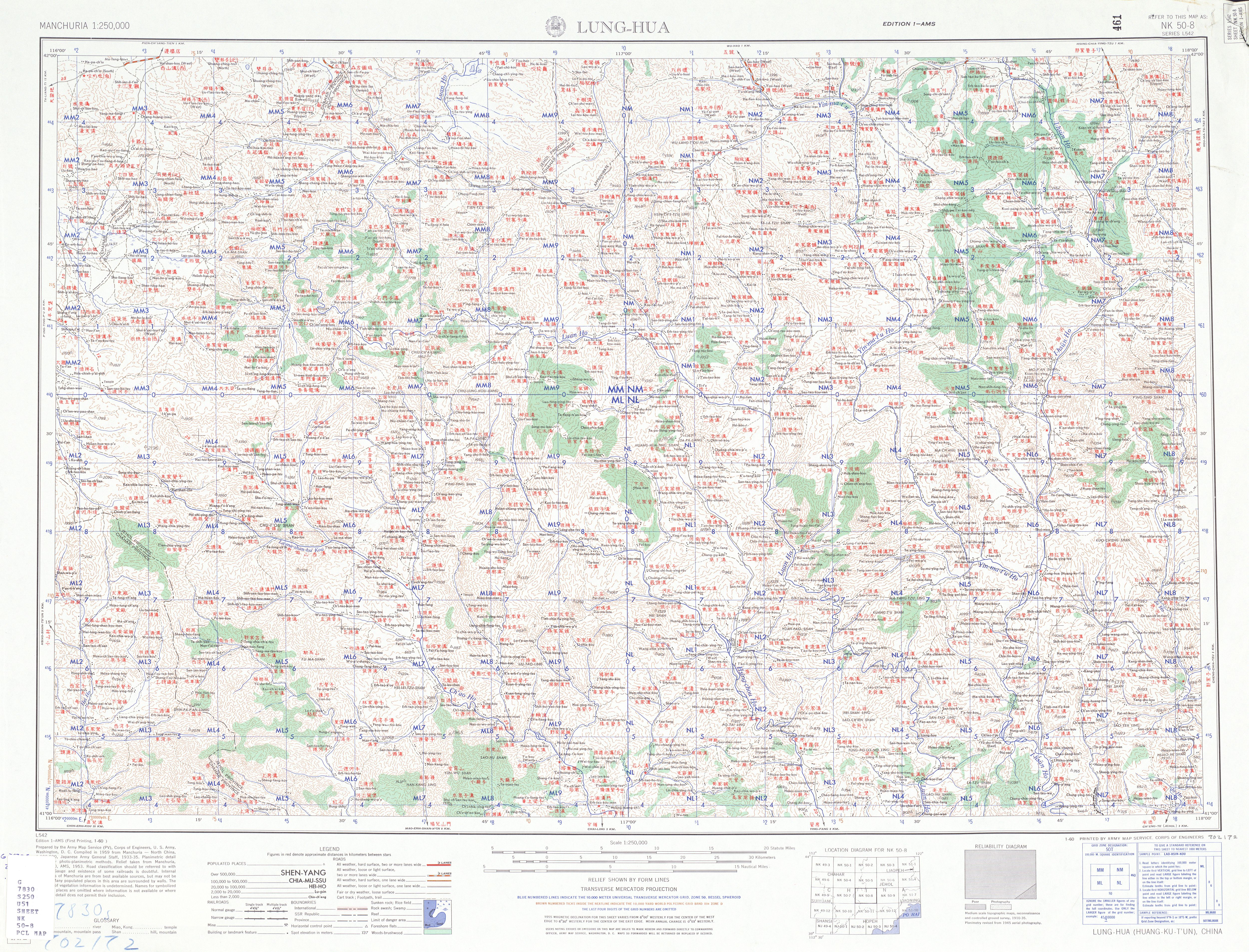 Manchuria AMS Topographic Maps